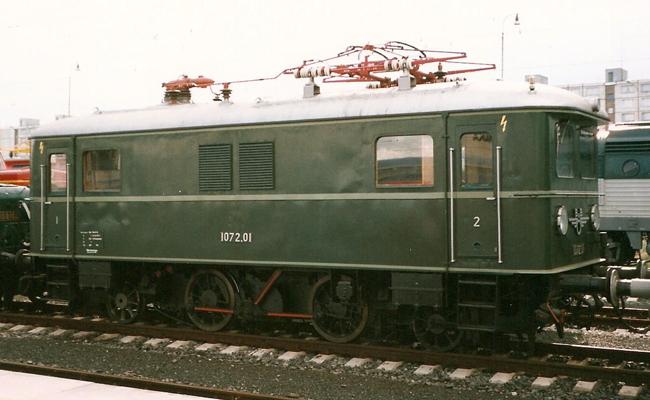 Locomotive ÖBB 1072.01 on the exhibition at Bratislava Petržalka railway station